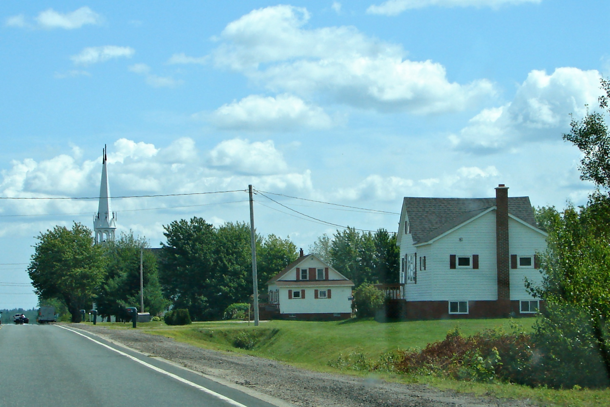 St. Margarets, New Brunswick, Canada